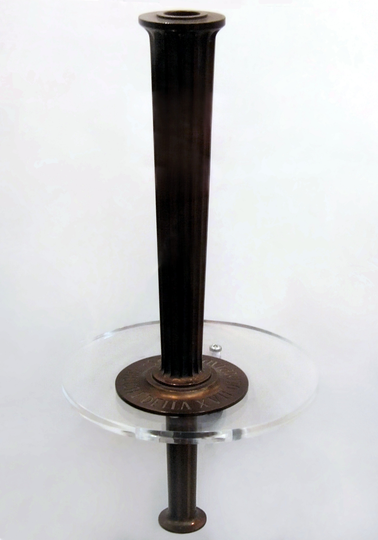 Rome 1960 olympic torch, Olympic museum Lausanne, temporary exhibition in Turin (Atrium Torino)